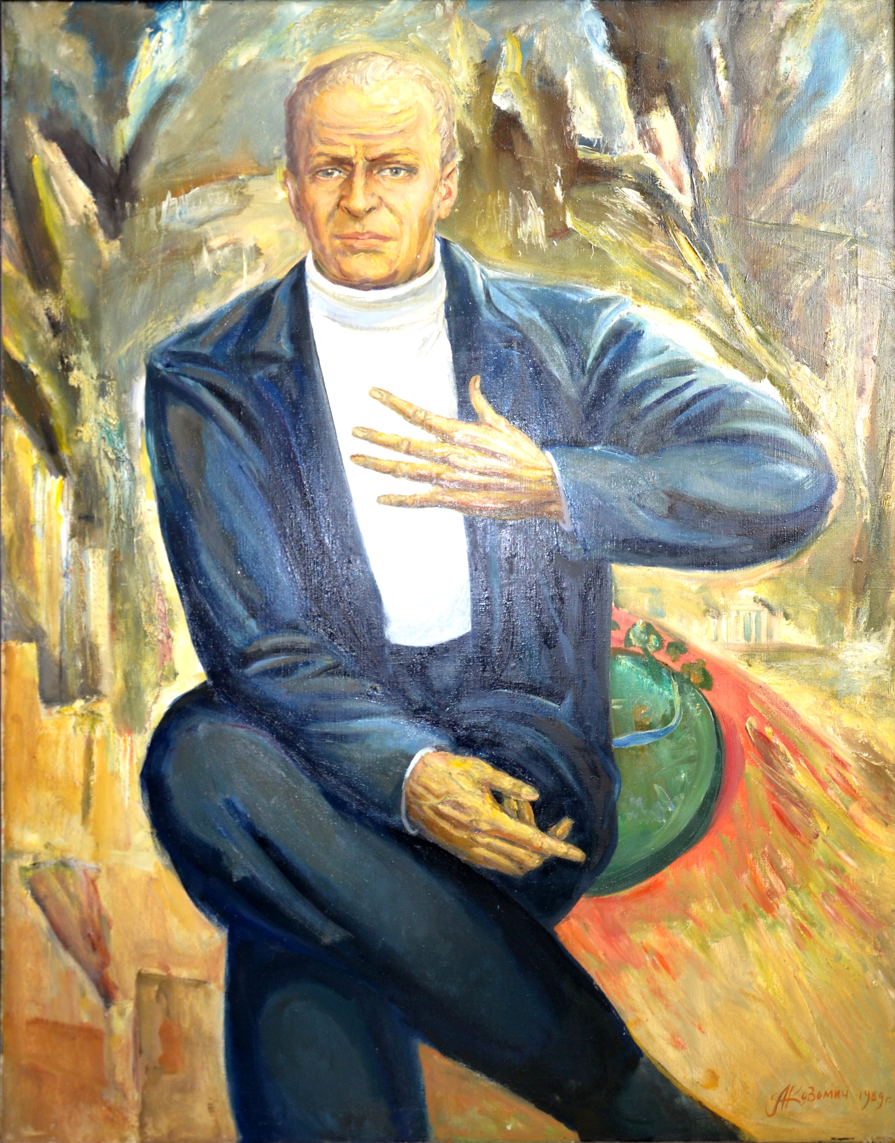 Alexey Kuzmich Portrait of screenwriters, national actor Victor Turov, 1989, oil on canvas 170, 5 х 134, 5 cm